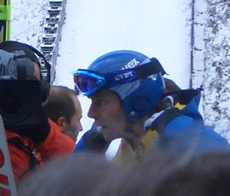 Finnish skijumper Janne Ahonen during World Cup competition in Titisee-Neustadt